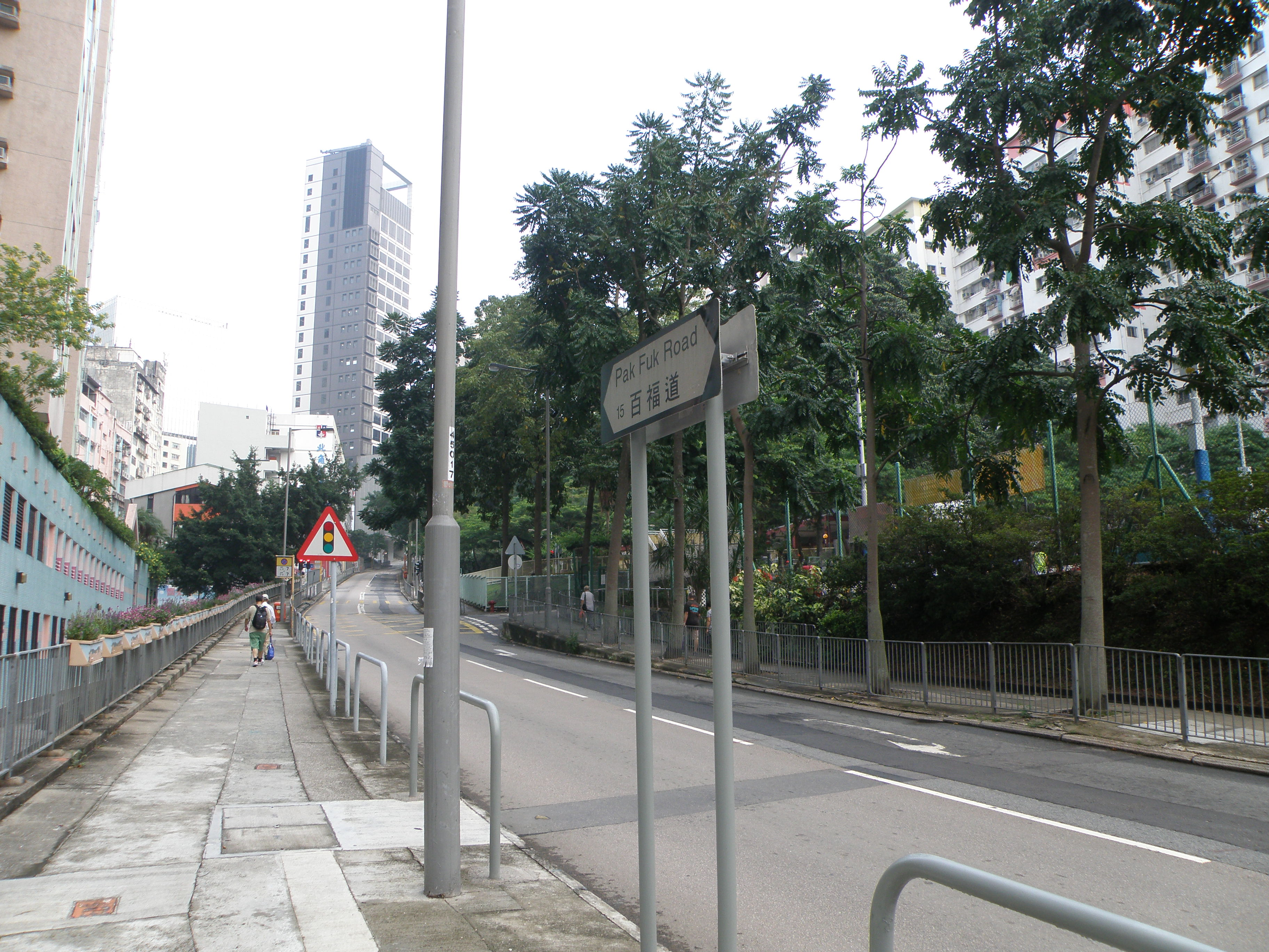 Pak Fuk Road in North Point, Hong Kong.